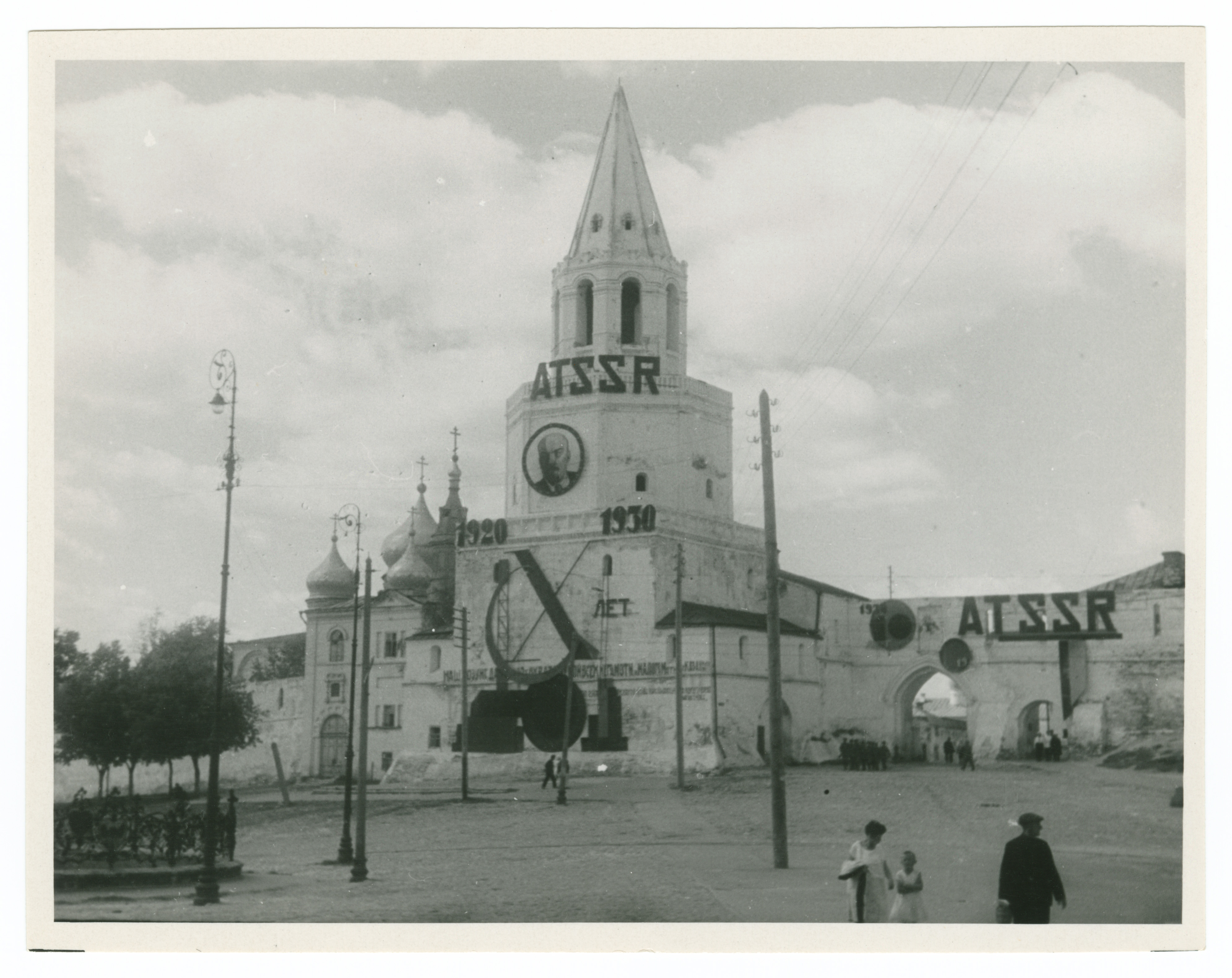 Spasskiy tower and Preobrazhenskiy monastery in Kazan Kremlin shortly after 1917